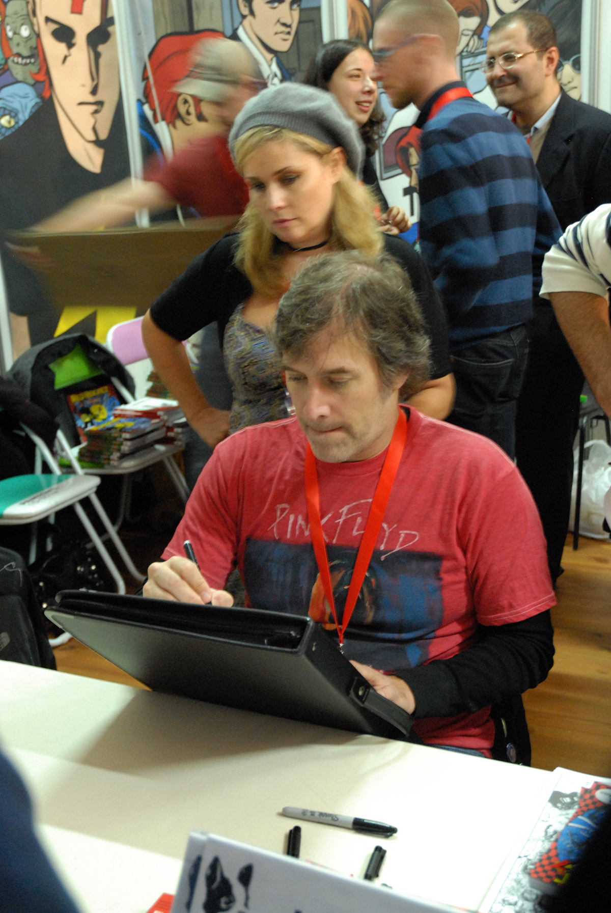 Mike Allred in a photo taken during Lucca Comics&Games 2010